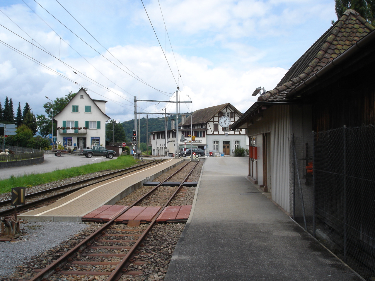 St. Urban train station.